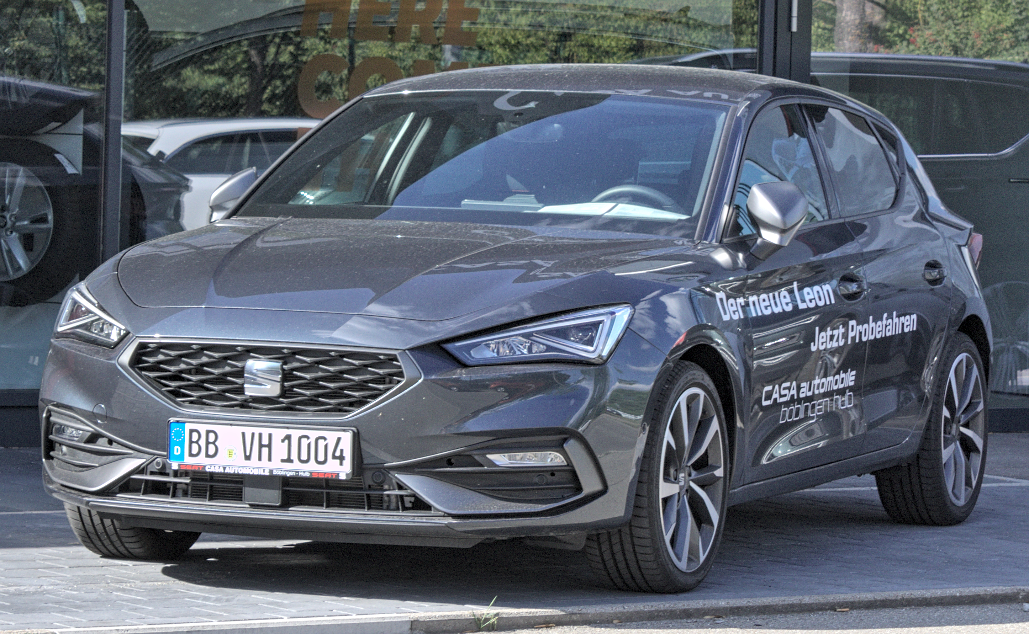 SEAT_Leon_Mk4 in Böblingen